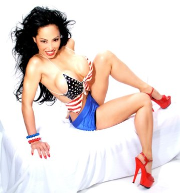 Philippine-American actress Mimi Miyagi.